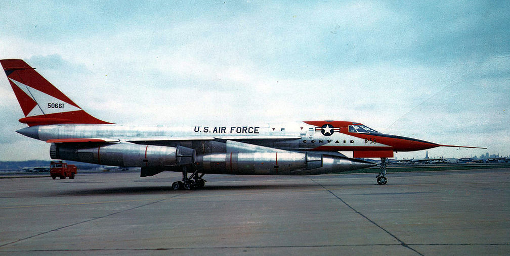 Convair YB-58A-1-CF Hustler (55-0661), the second aircraft built. converted to NB-58A, then to TB-58A. To MASDC as BQ0063 1/9/70. Scrapped July 13, 1977 (U.S. Air Force photo)